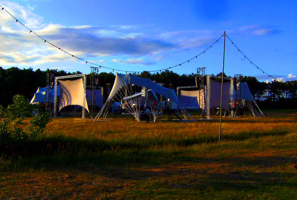 Setup of the Time Project (Live-Music Installation) in Terschelling, NL 2008 for the Oerolfestival.